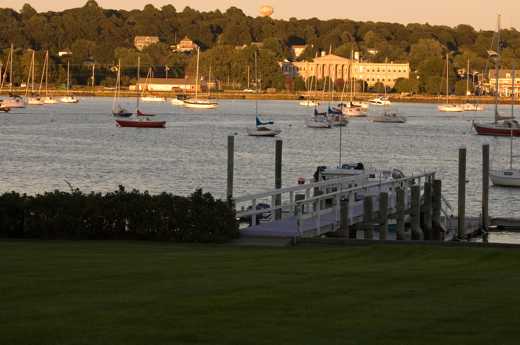 Photograph taken on September 24, 2005 by Angus Davis. (The view is from Poppasquash peninsula, facing east across the north end of the harbor, with Guiteras School in the center right of the image.)